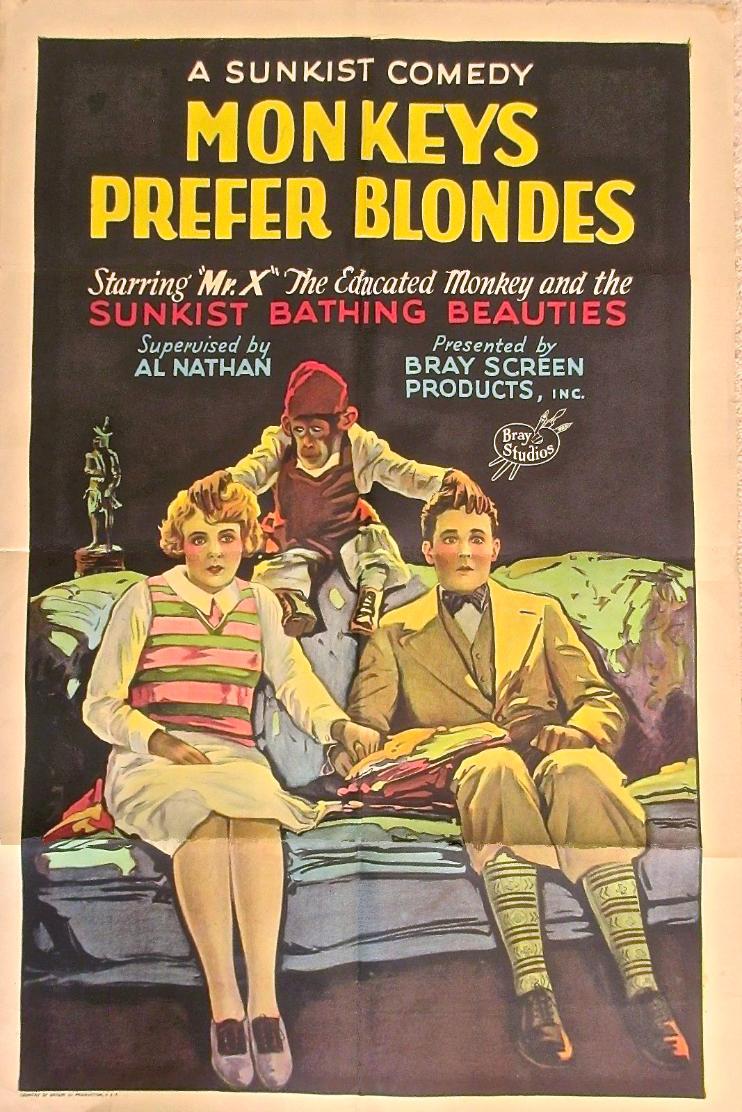 Poster for the American comedy short film Monkeys Prefer Blondes (1926). The item has no copyright markings on it as can be seen in the links above. At bottom left is Country of origin and production USA.